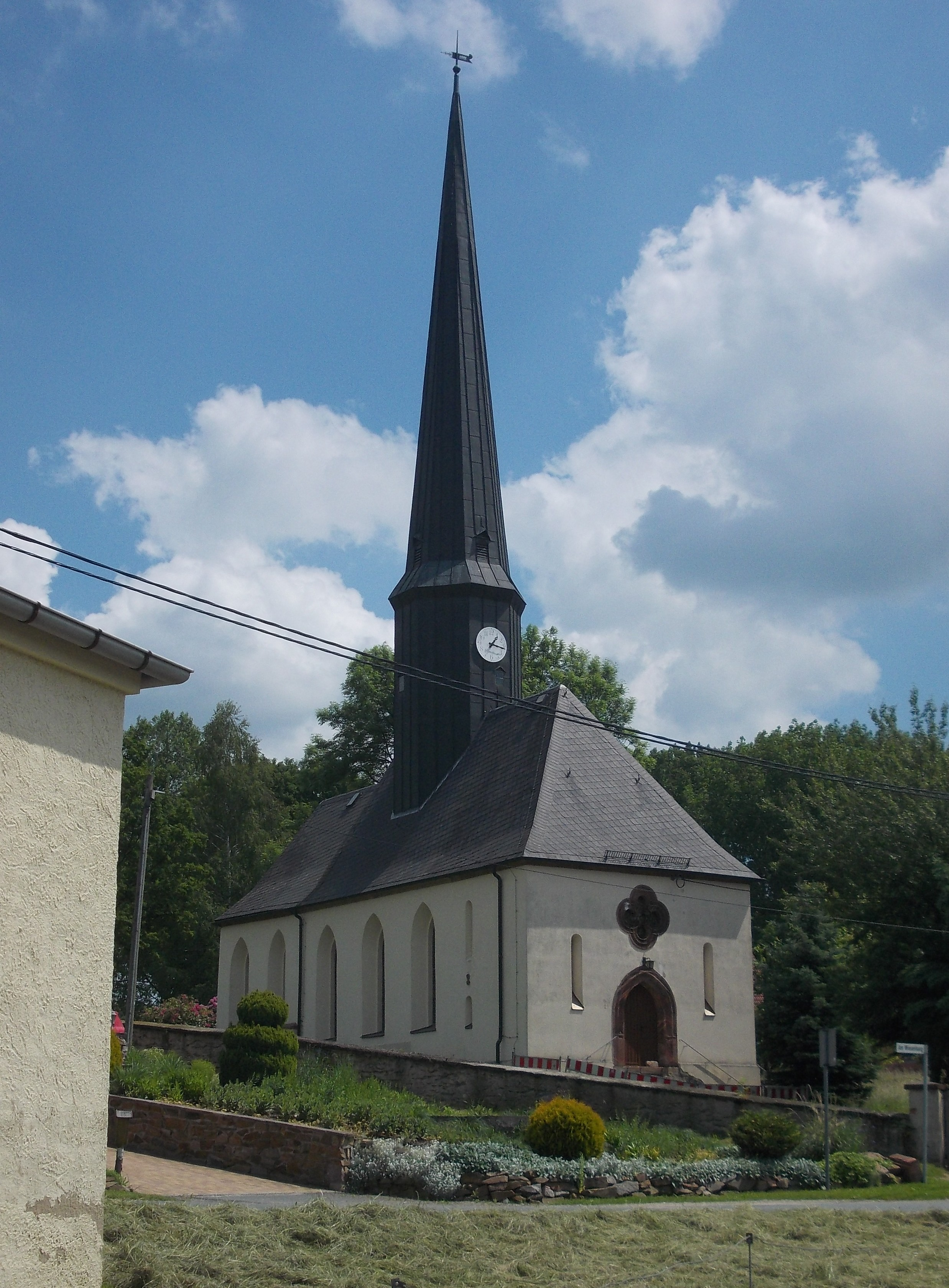 Schwaben church (Waldenburg, Zwickau district, Saxony)